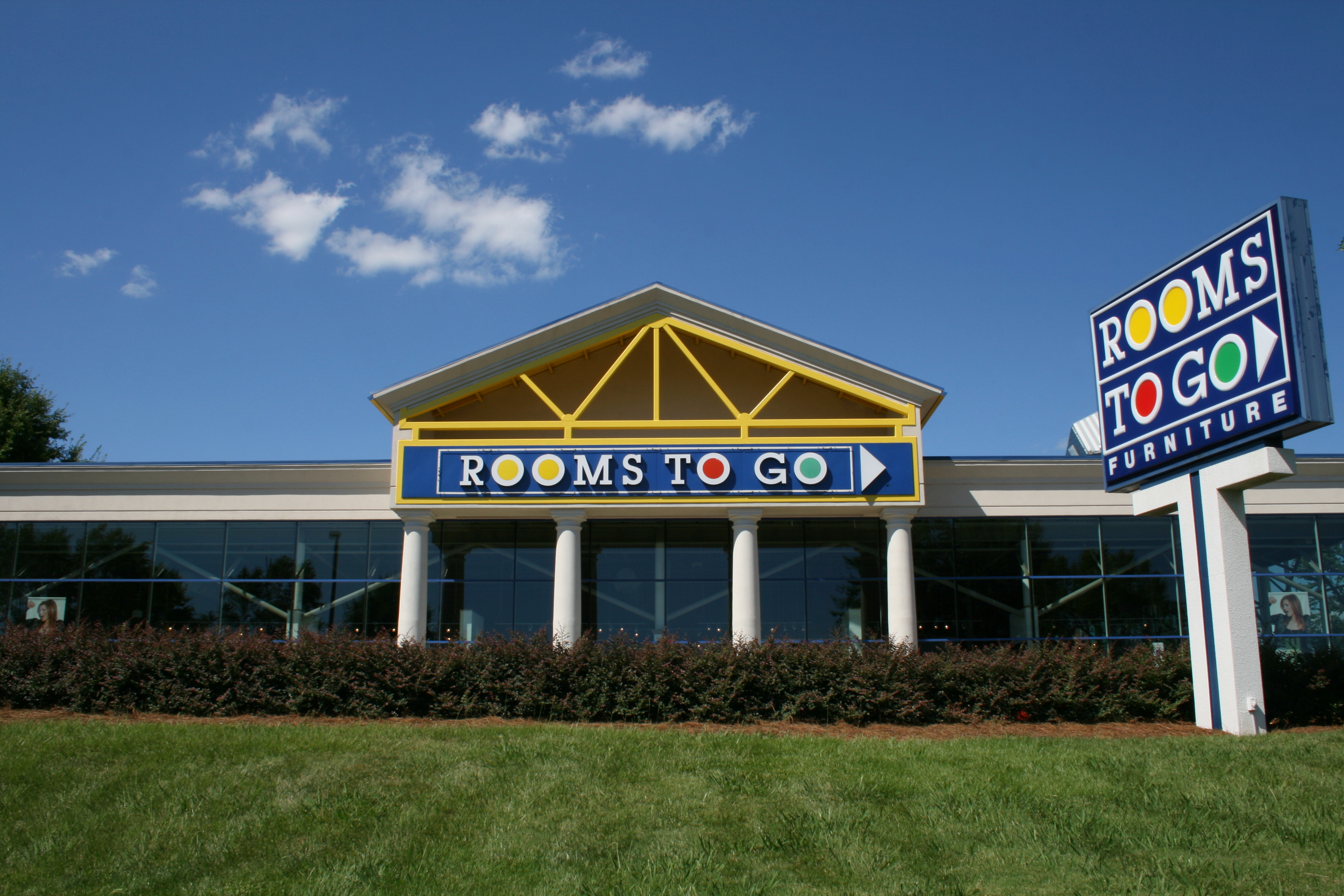 Rooms To Go furniture retailer at 4144 Durham Chapel Hill Boulevard in Durham, North Carolina.